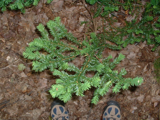 Taxus canadensis (Canada yew), Pancake Bay Provincial Park, Ontario.